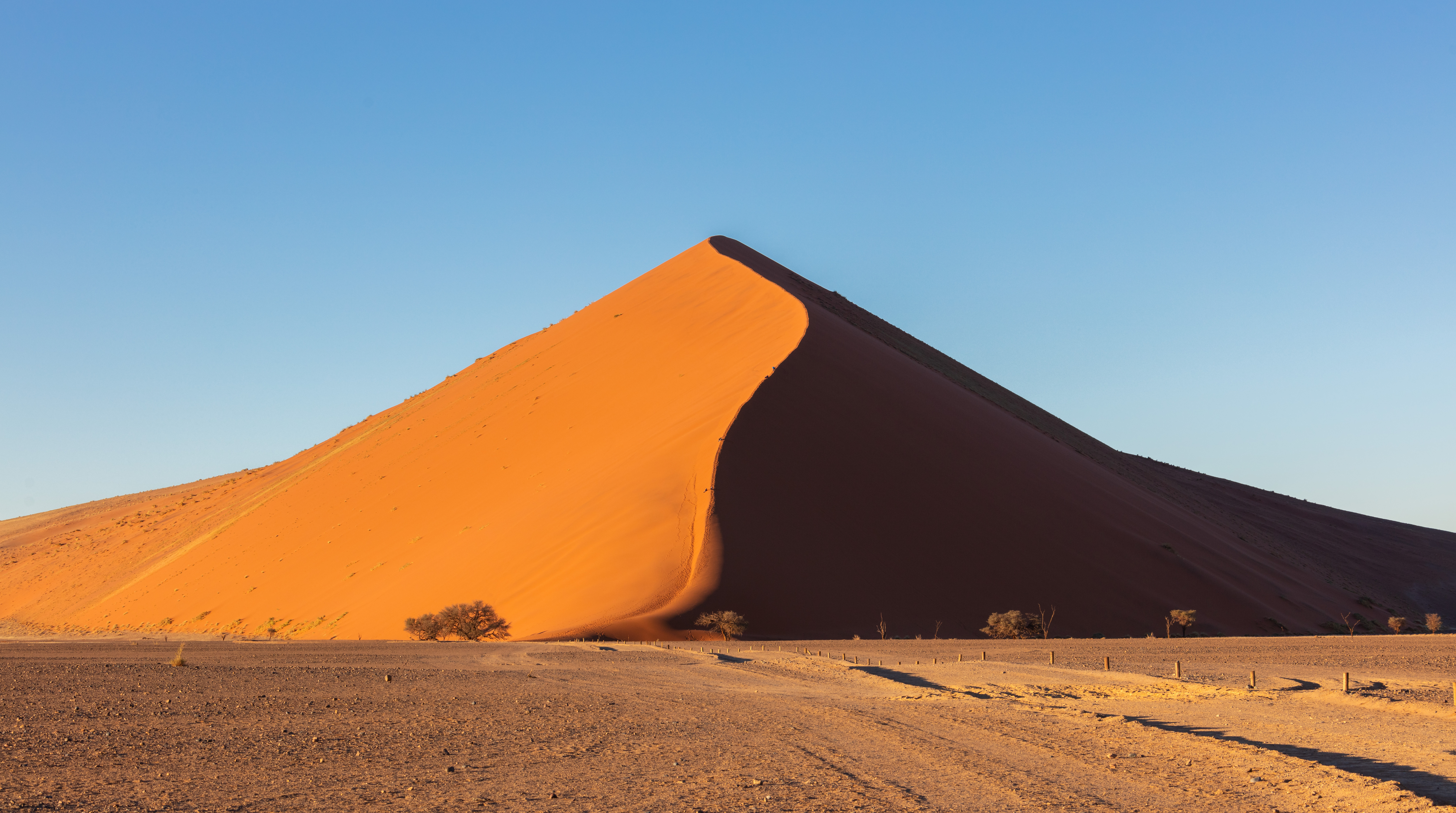 Huge dune in Km 39, Sossusvlei, Namibia.